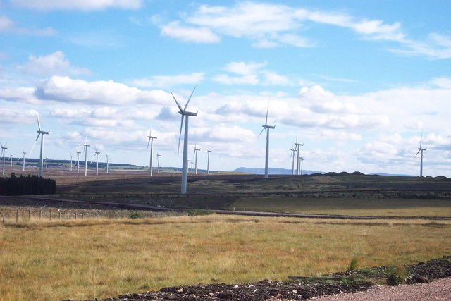 Black Law Wind Farm. Black Law Wind Farm. This was the largest wind farm in the UK until Whitelee windfarm was constructed. This shot is taken from King's Law, just NE of Carluke, towards Black Law. There is a triangulation point at the 312m summit 75% across the picture to the right. The top of the Pentland Hills can be seen in the background.